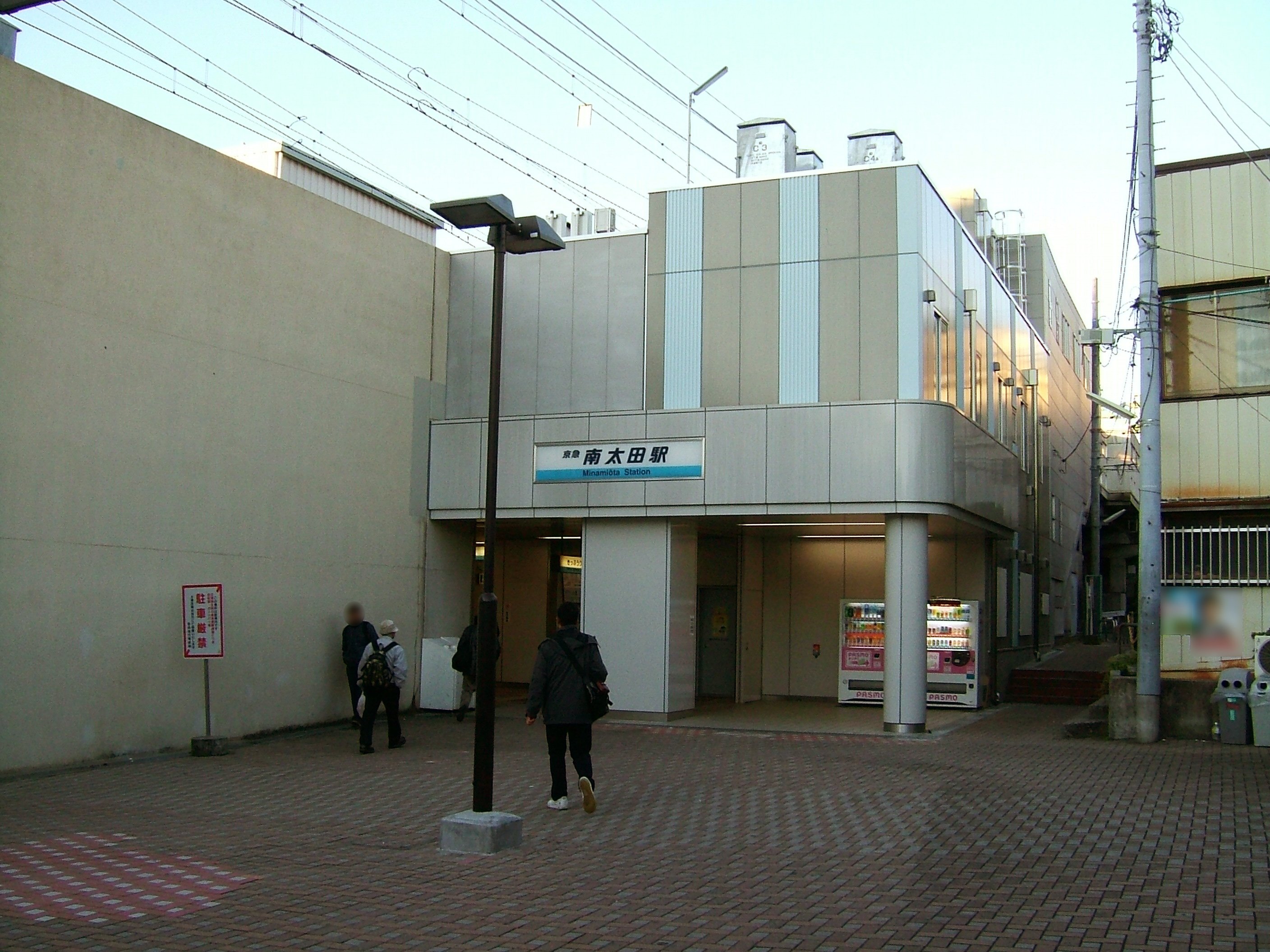 Minami-Ōta Station north entrance (Keihin Electric Express Railway Main Line)